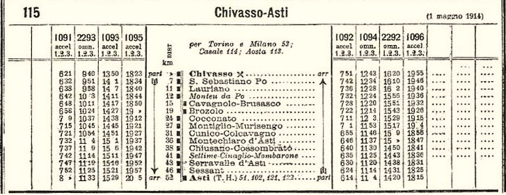 Asti-Chivasso 1914 timetable